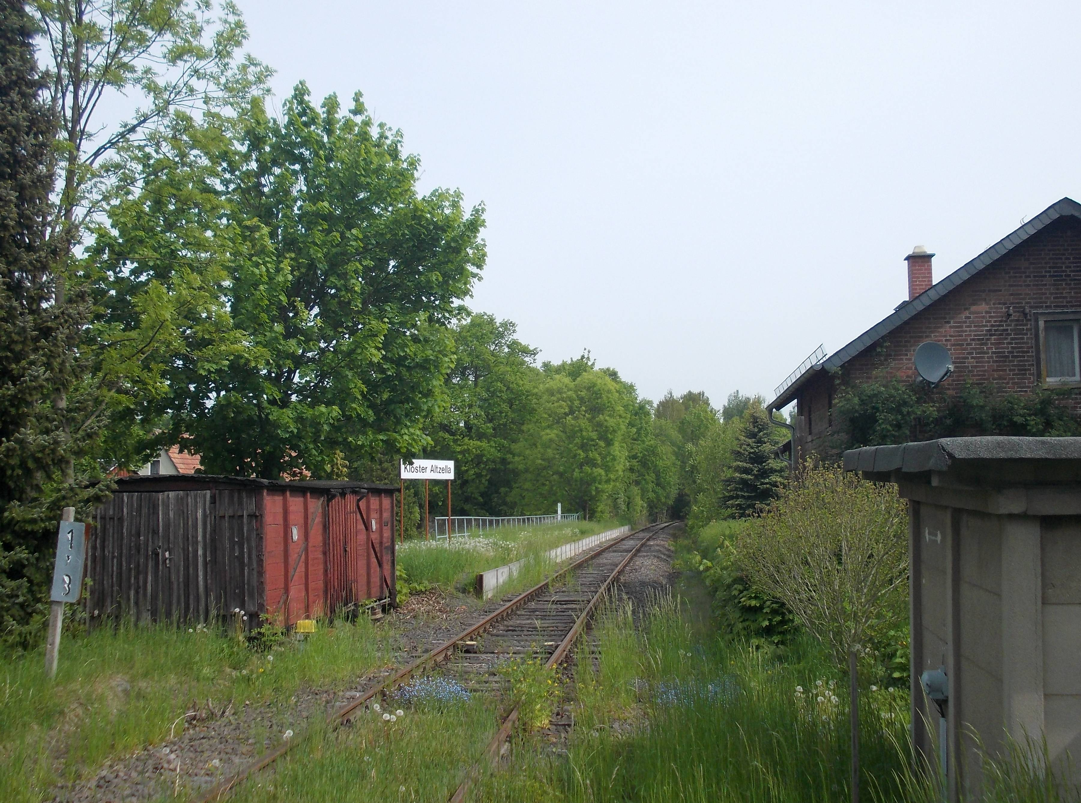 Altzella train station (Nossen, meissen district, Saxony) on the Nossen-Freiberg railway line